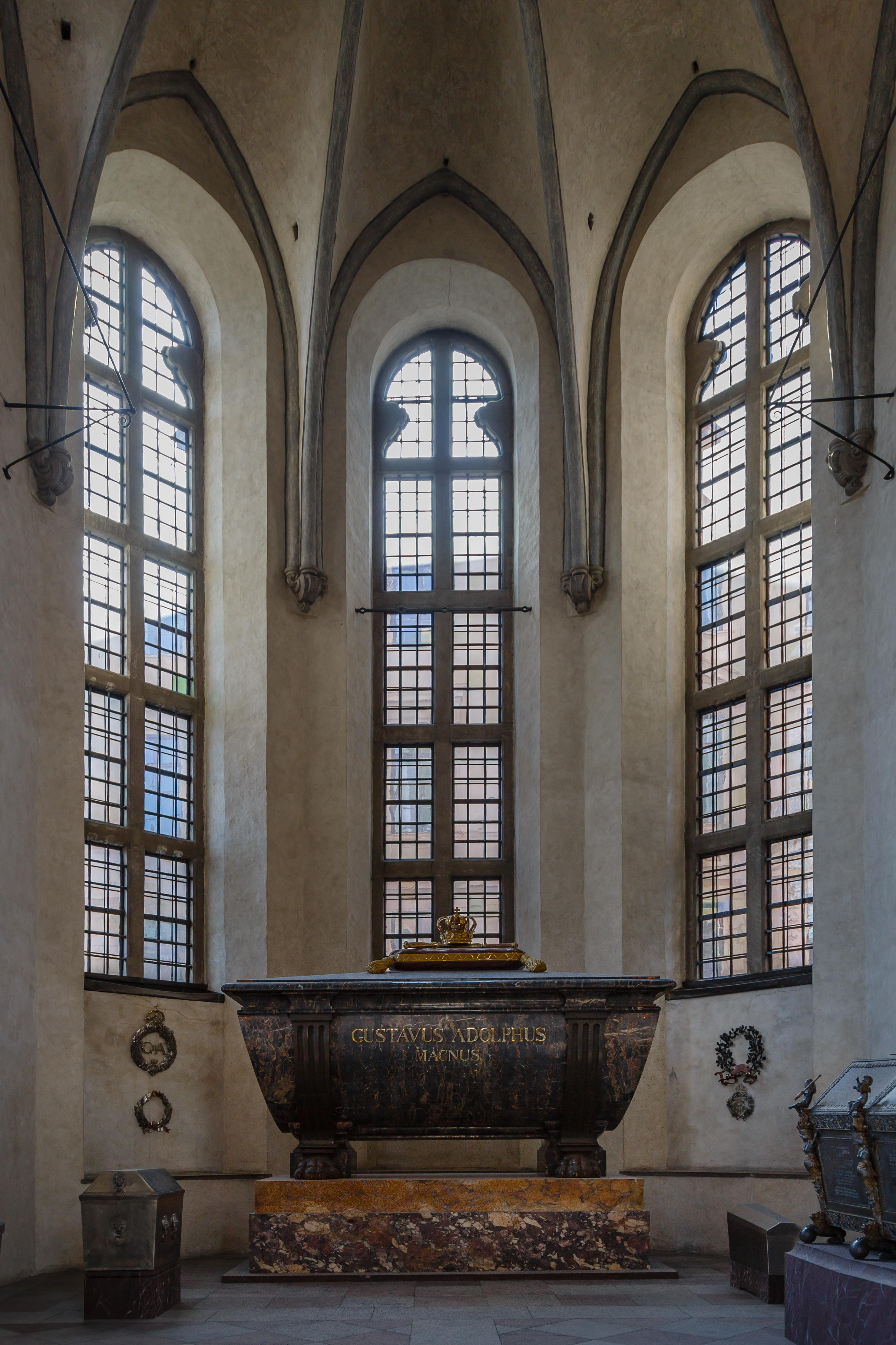 Stockholm, Sweden: The sarcophagus of Gustavus Adolphus Magnus in the Riddarholmen Church